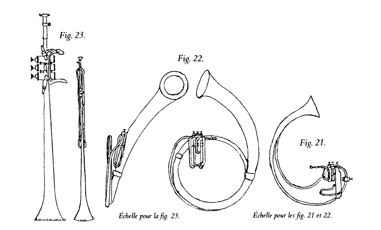 Drawings of Adolphe Sax's saxtubas on French Patent (Brevet d'Invention) 4361 References Clifford Bevan (1990). "The Saxtuba and Organological Vituperation". The Galpin Society Journal 43 (Mar., 1990): 135-146. Galpin Society. "On 5 May 1849 Adolphe Sax was granted French Patent 4361 for ‘Wind Instrument’ (see Fig. 1). He made amendments in a cerificate dated 20 August 1849 and notified further changes in anoter of 23 April 1852. ... FIG. 1. ‘Instruments à vent, par M. Sax’ (from the drawings accompanying Brevet d'invention 4361 of 5 May 1849)."